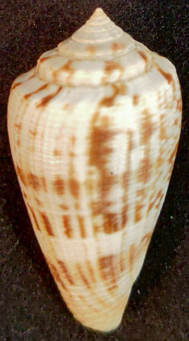 Conus Anemone Back